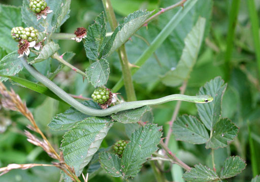 Rough Green Snake, Opheodrys aestivus. Notes: draped over vegetation (Rubus species) in typical posture. Location: Orange County, North Carolina, United States.